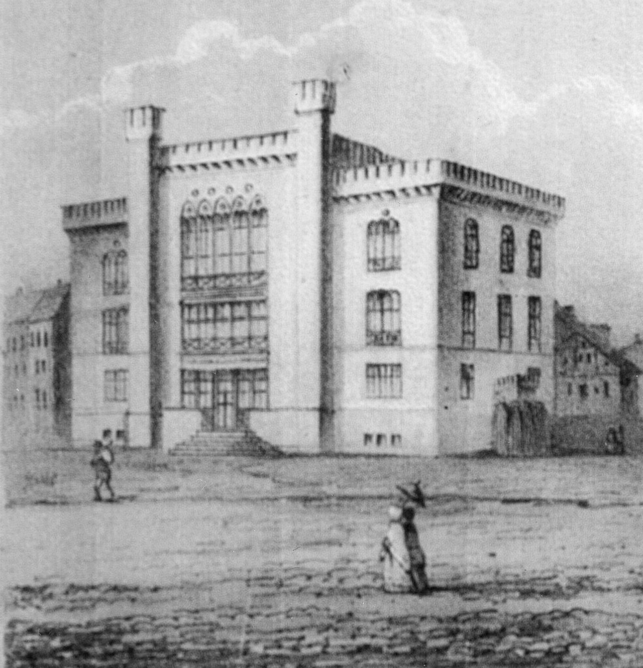 the new school building Gymnasium Anklam/Pomerania